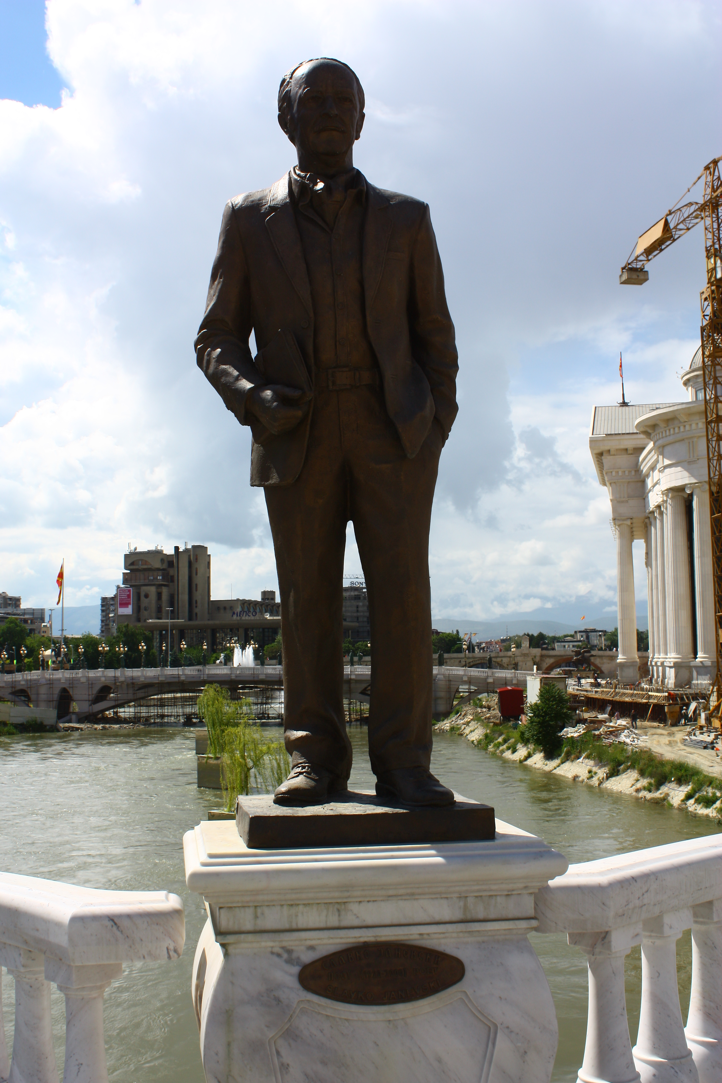 Sculpture od the Bridge of Arts in Skopje, Macedonia This image is uploaded as part of the picture contest Wiki Loves Cultural Heritage in Macedonia 2013. English | македонски | +/−